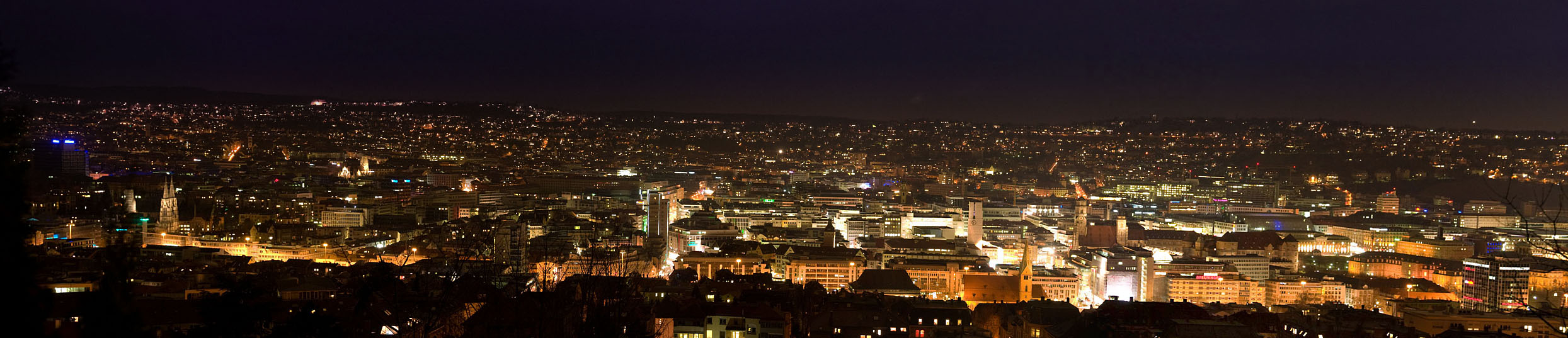 Stuttgart at night